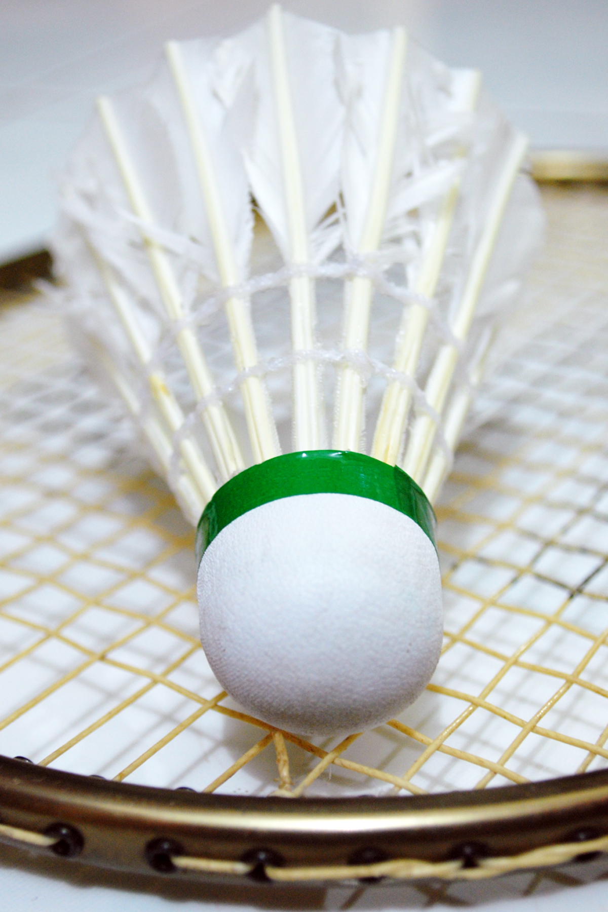 A Shuttlecock.